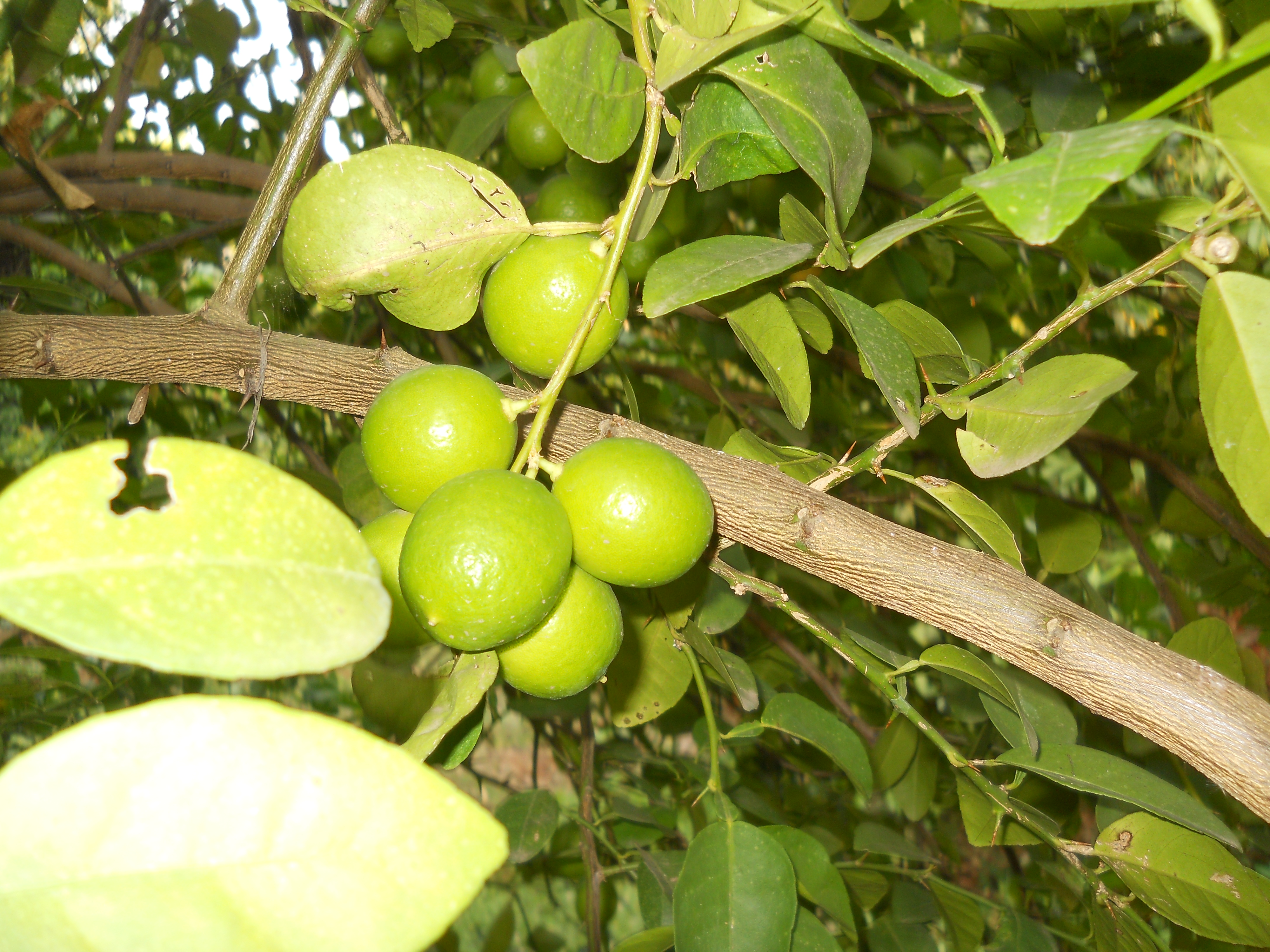 Citrus aurantifolia (Key lime) (Telugu Name : Pulusunimma) at Vinjamur, Nellore (dt),A.P.